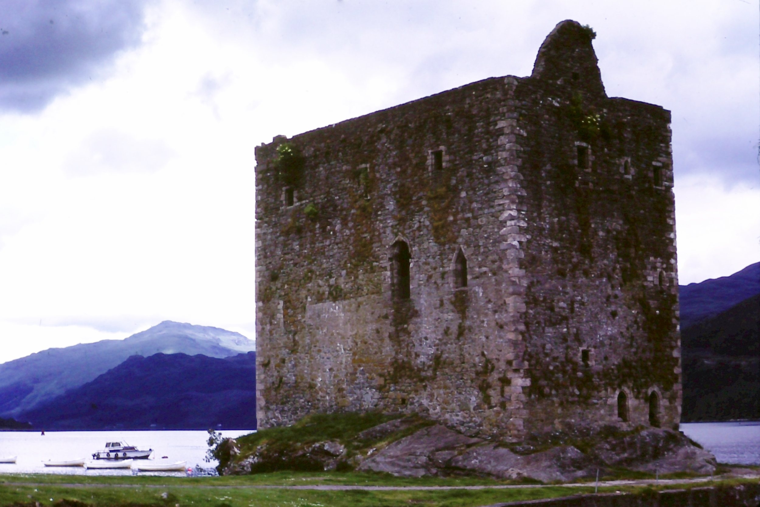 Carrick Castle, nr. Lochgoilhead, Argyll, photographed in 1980